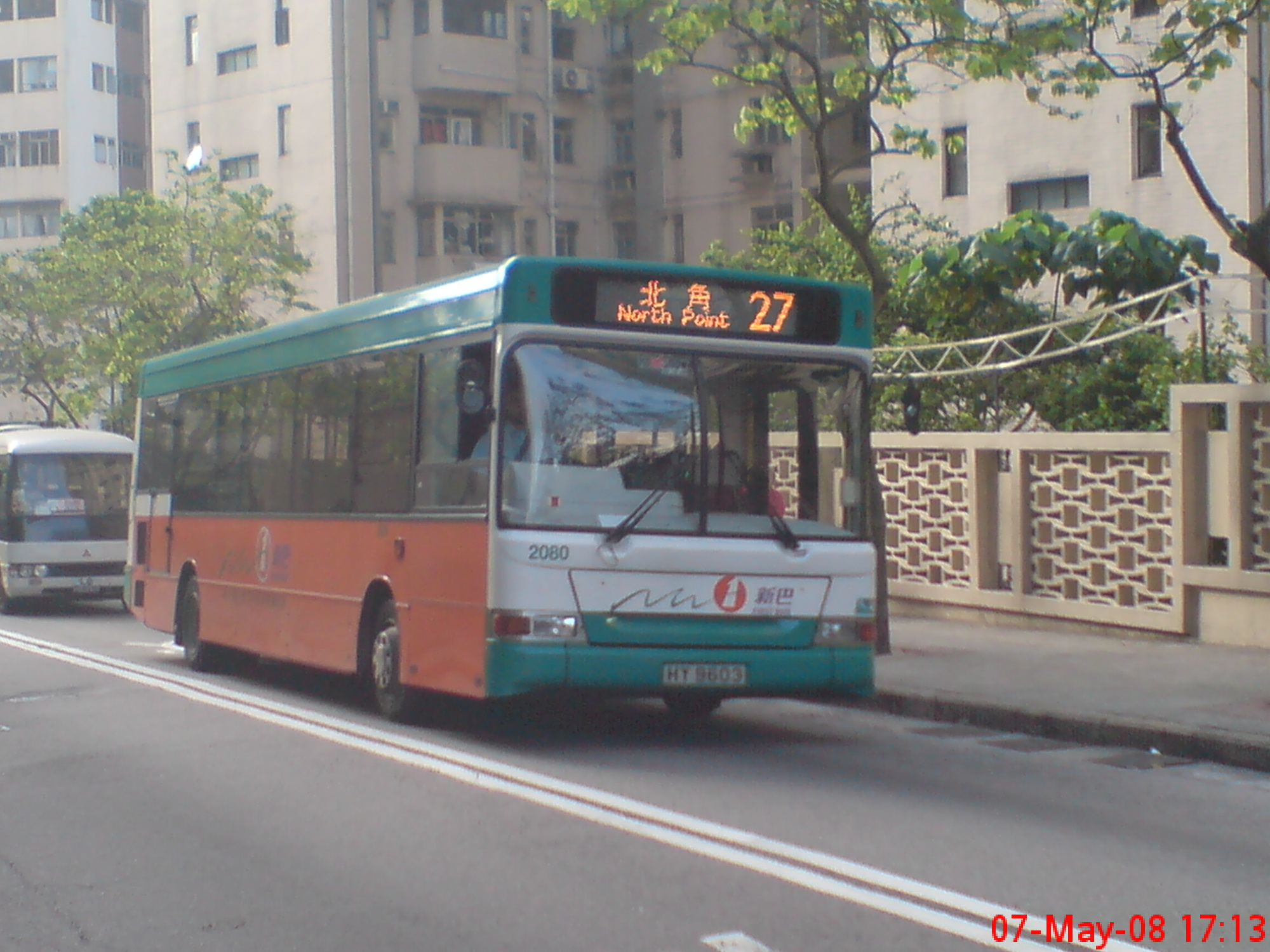 Image taken at Summit Court bus stop on Braemar Hill in May 2008